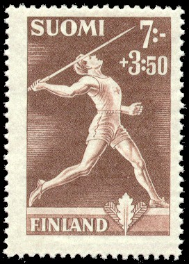 Finnish javelin champion Matti Järvinen in 1945